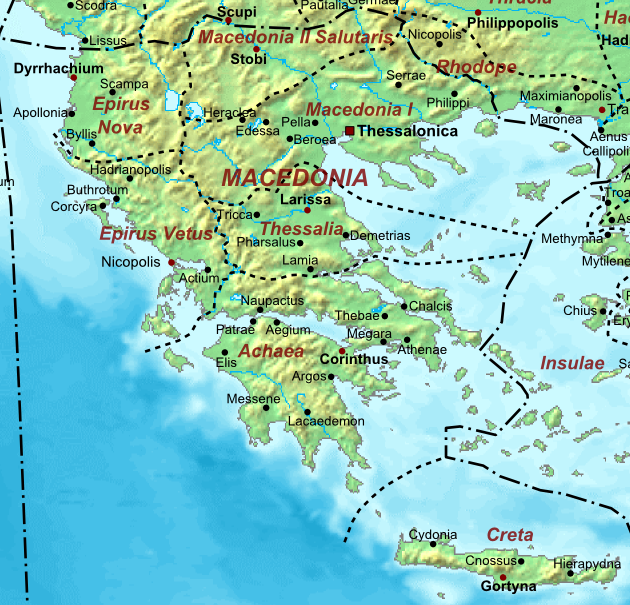 Map of the ca. 400 AD, showing the administrative division into dioceses and provinces, as well as the major cities.